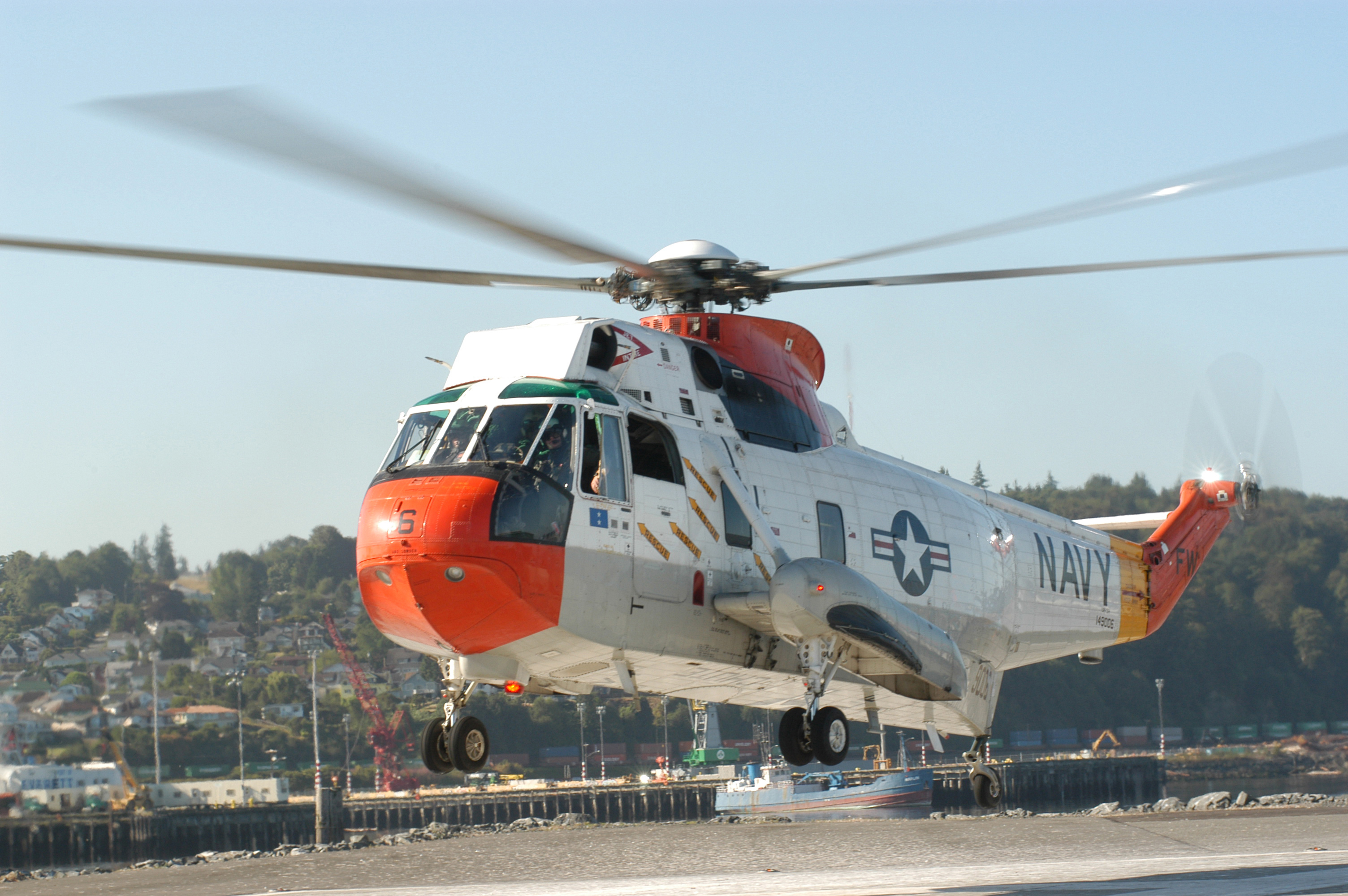 Naval Station Everett, Wash. (Jul. 23, 2003) -- A UH-3H Search and Rescue helicopter takes off from Naval Station Everett during an anti-terrorism exercise. Members of Naval Station Everett perform anti-terrorism training to increase readiness in the event of an attack. U.S. Navy photo by Photographer's Mate 2nd Class Shaun McWhinney. (RELEASED)